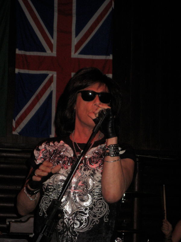 Joe Lynn Turner in action ! Taken at John Bull Pub - Florianópolis - Brazil - 05-12-2010